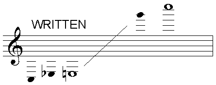 Image by User:Special-T detailing the written range of a bass clarinet. Made using Finale 2000 and Adobe Photoshop 4.0 LE. I'm uploading this in his name with a most liberal license I can as requested.